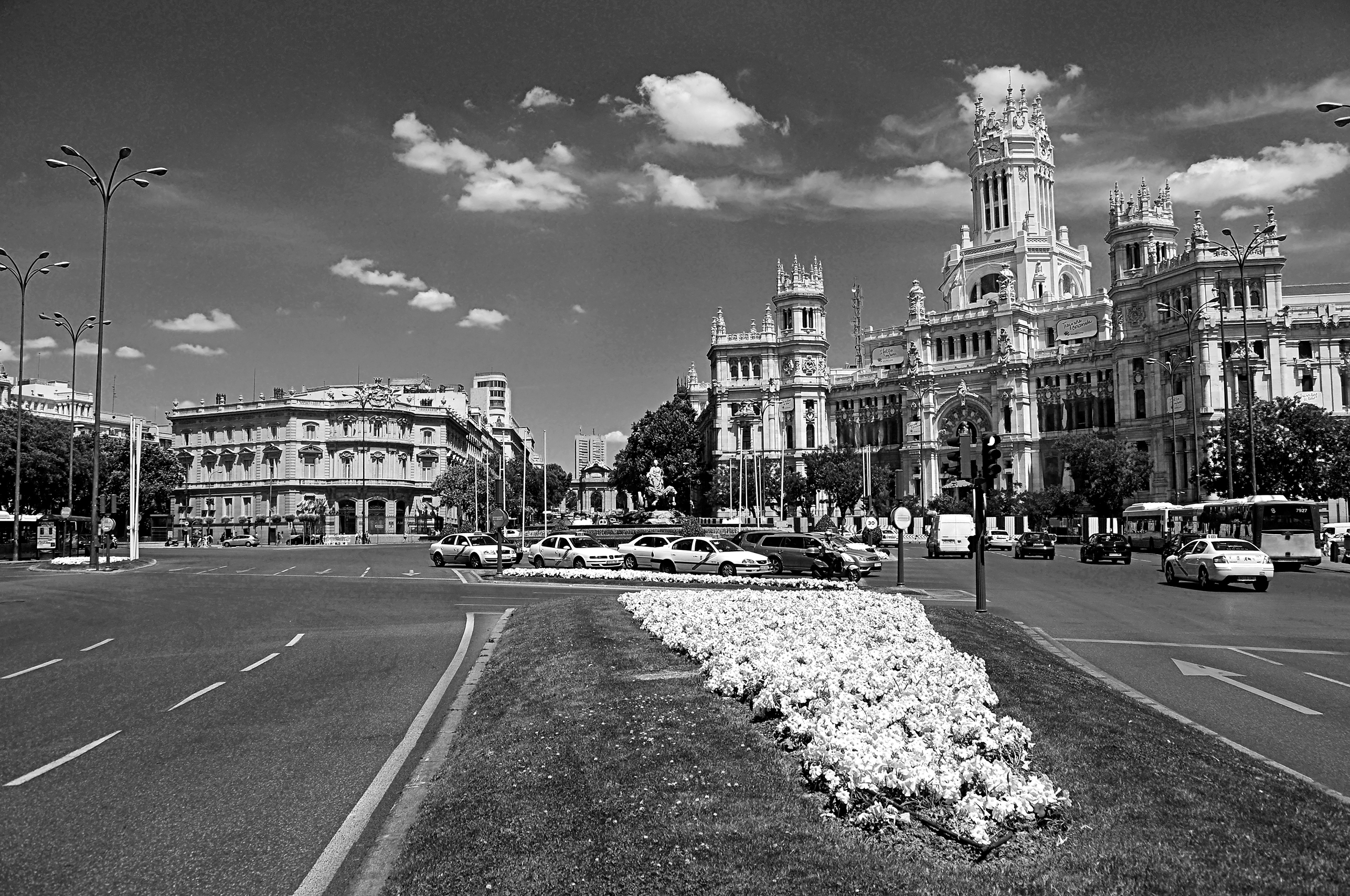 Plaza de Cibeles (square) in Madrid (Spain). Background right: Palacio de Comunicaciones.